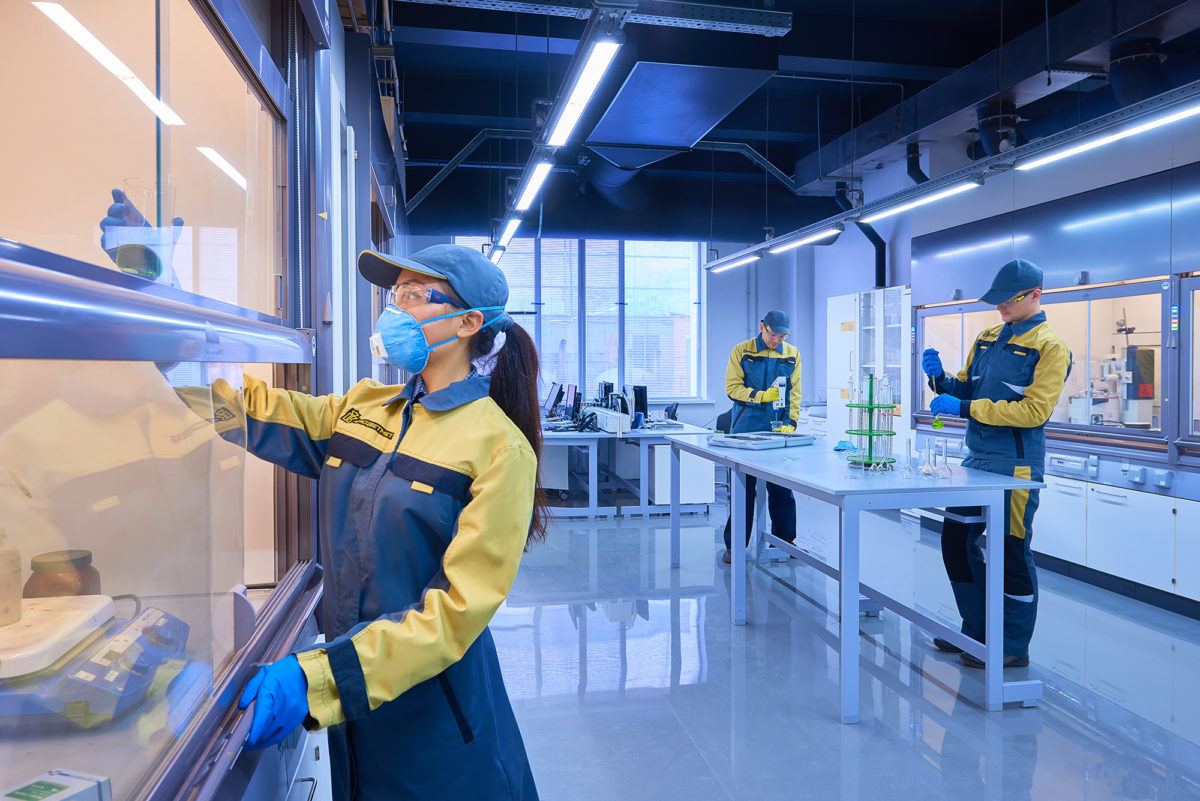 R&D Park Krastsvetmet